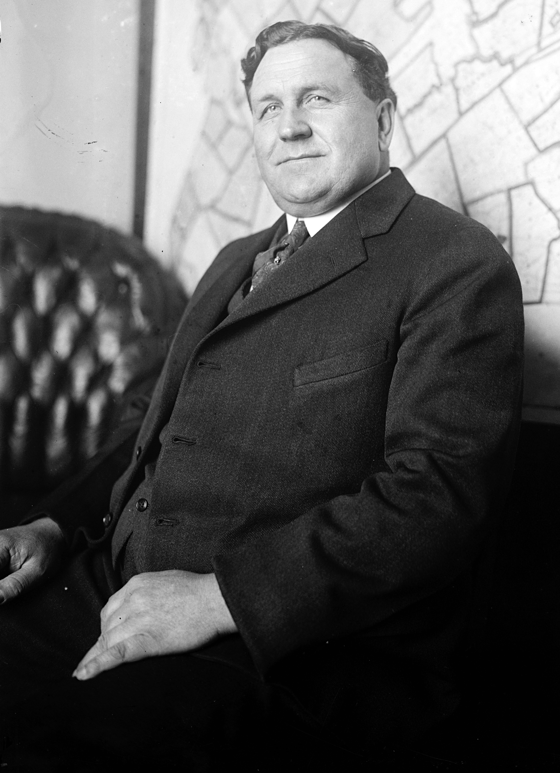 Edward M. Beers, US Representative from Pennsylvania